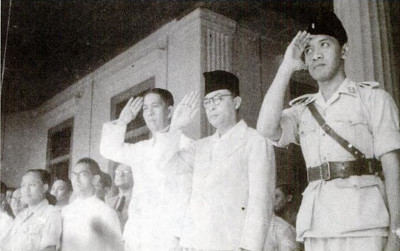 Arnold Mononutu (3rd from right), Mohammad Hatta (2nd from right), and Sultan Hamengku Buwono IX (right) observe a military parade in Yogyakarta on 20 February 1948